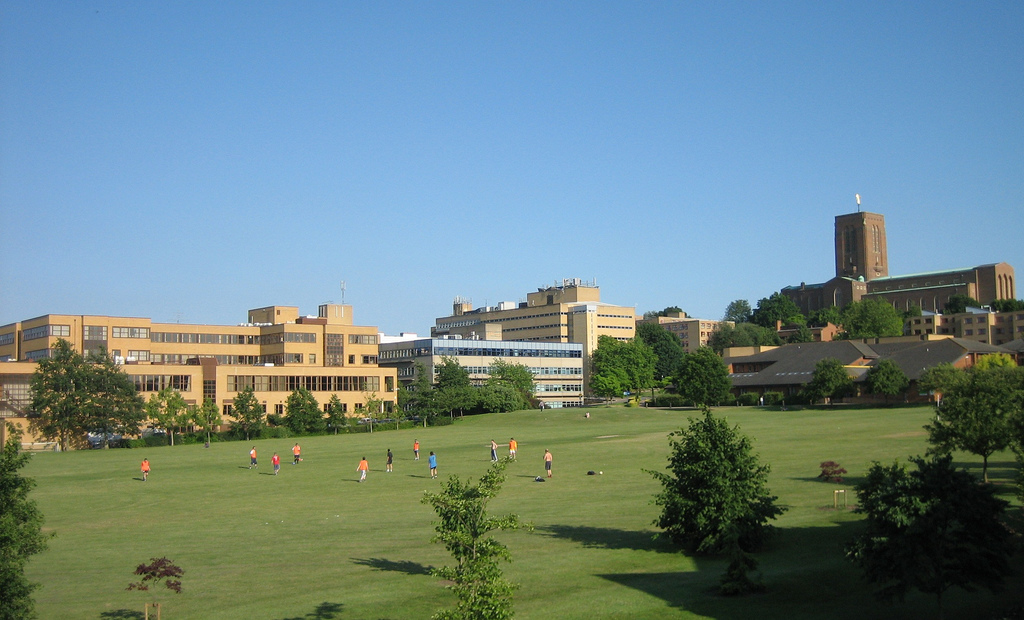 From Twyford Court. Was revising for an exam and wishing I was out in the sunshine.